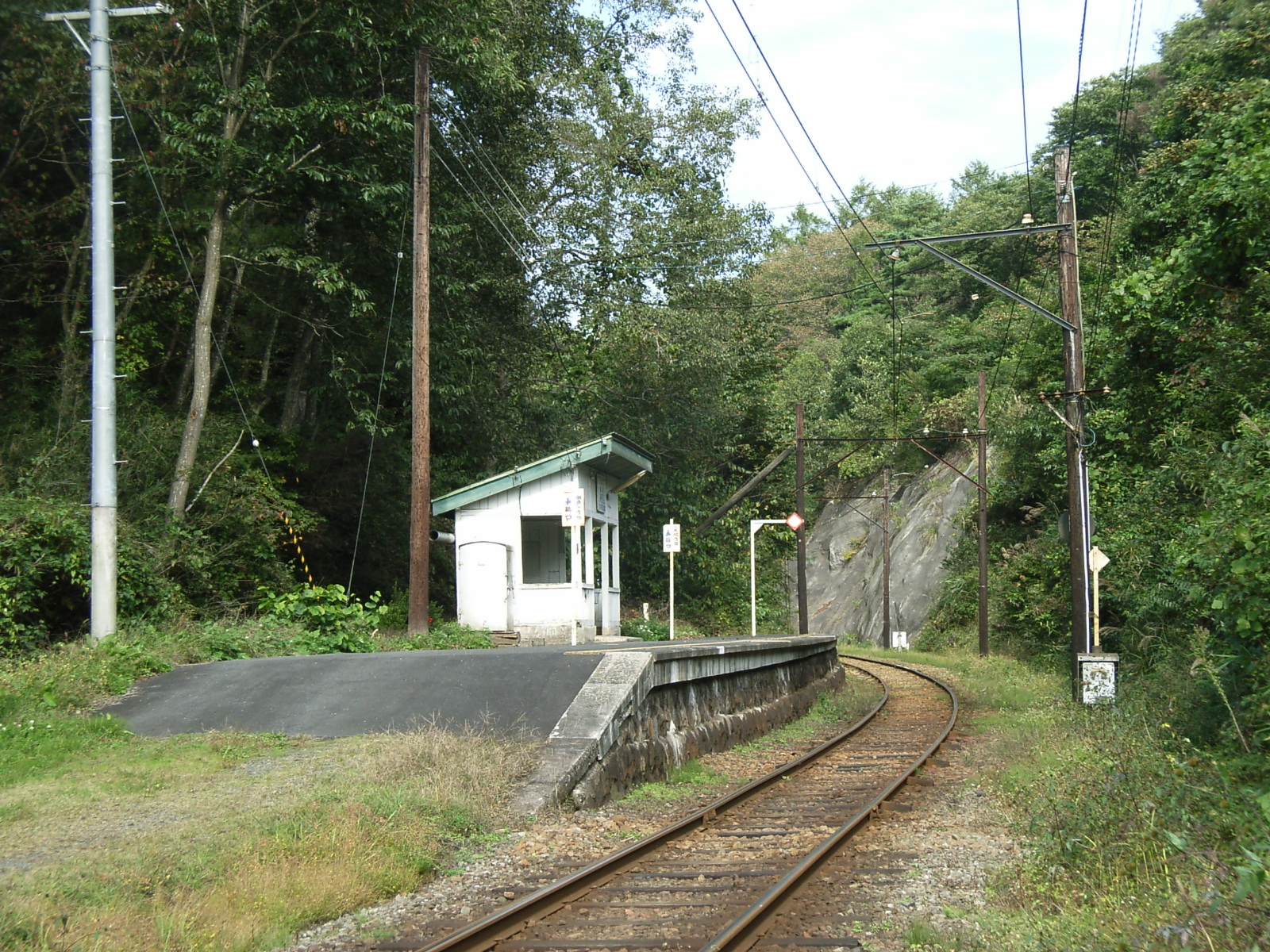 Omatsu Station of the Kurihara Denen Railway. Kurihara, Miyagi prefecture, Japan.